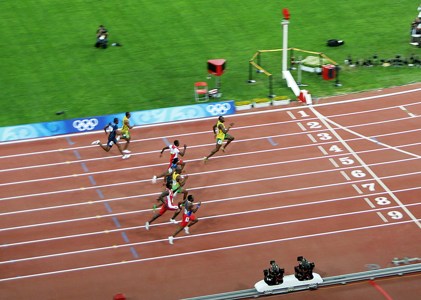 Usain Bolt winning the 100 m final 2008 Olympics